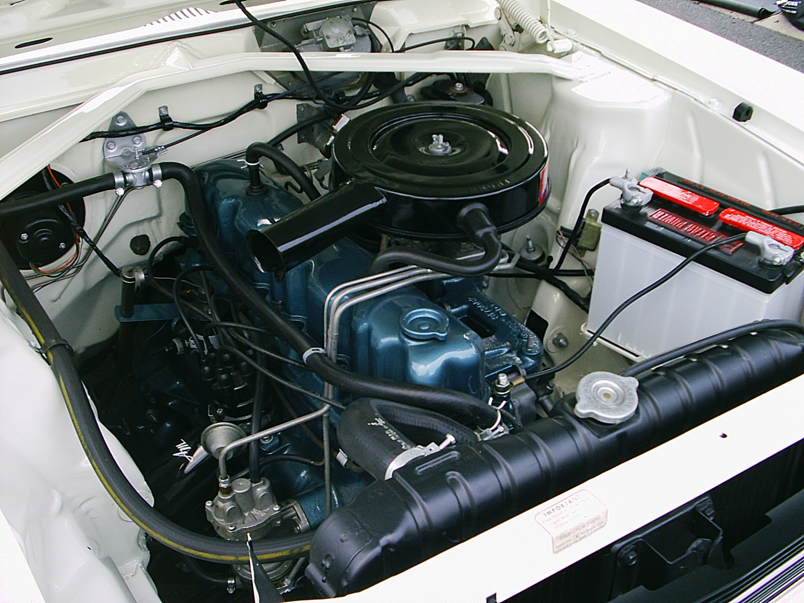 The 199 CID (3.3 L) straight 6 engine by American Motors Corporation (AMC) in a 1968 Rambler American base model station wagon. Picture taken at AMCRC show in Gaithersburg, Maryland.